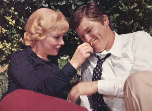 Candid photo of Kurt Russell and Kathleen during the shooting of Disney's "Charley and the Angel".